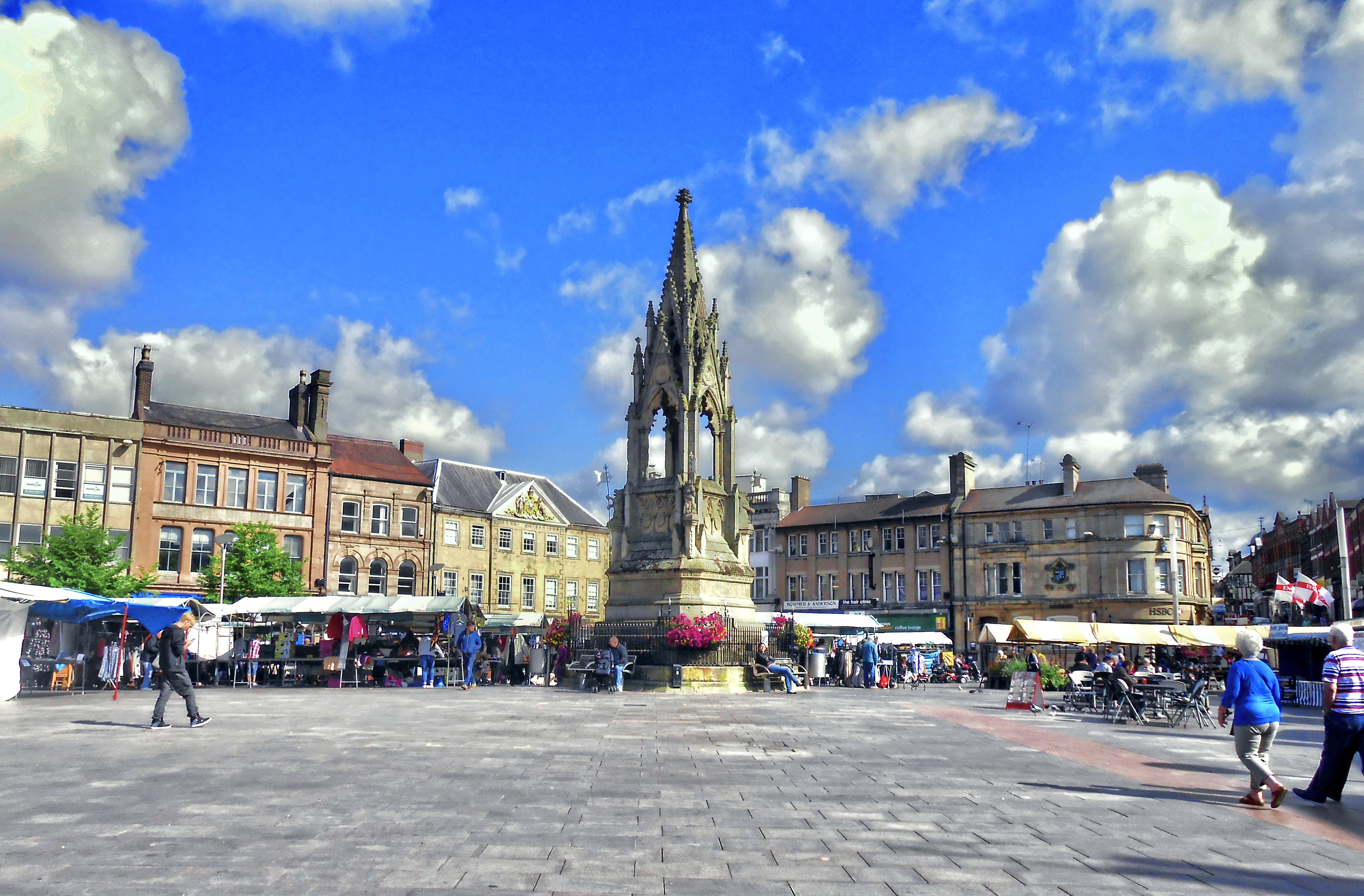 A bright morning for Mansfield's Tuesday market, showing the Bentinck Memorial in the centre of the picture.